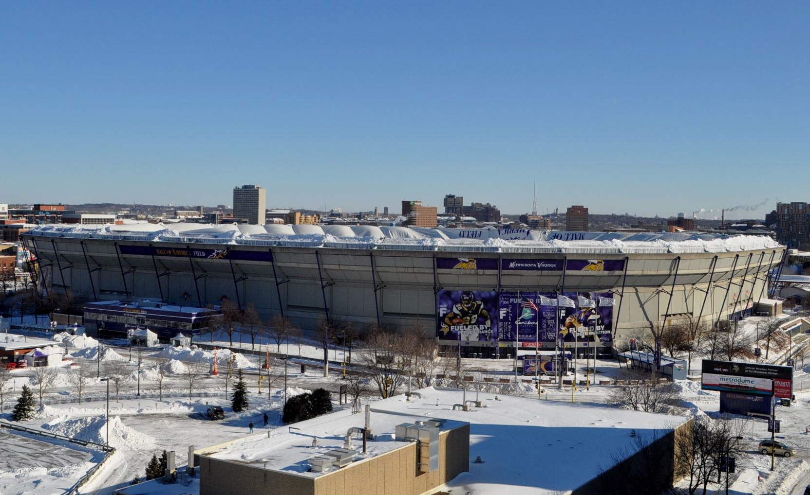 Metrodome's roof collapse after 12-12-2010 blizzard